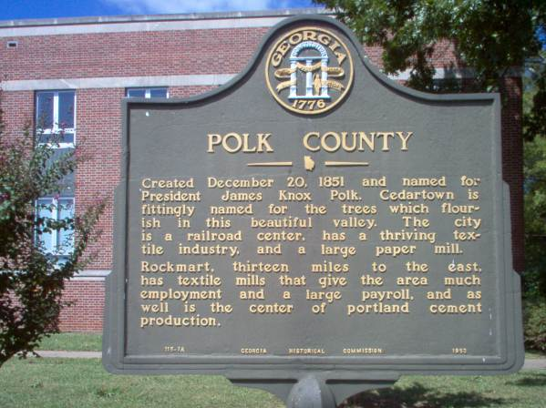 This is Georgia Historical Marker 115-1A, standing to the east of the entrance to the Polk County Courthouse in Cedartown. The text of the sign reads: POLK COUNTY Created December 20, 1851 and named for President James Knox Polk. Cedartown is fittingly named for the trees which flourish in this beautiful valley. The city is a railroad center, has a thriving textile industry, and a large paper mill. Rockmart, thirteen miles to the east, has textile mills that give the area much employment and a large payroll, and as well is the center of portland cement production. 115-1A GEORGIA HISTORICAL COMMISSION 1953 This picture was taken by Karl Ward on 9 September 2004. Copyright 2004 Karl Ward.